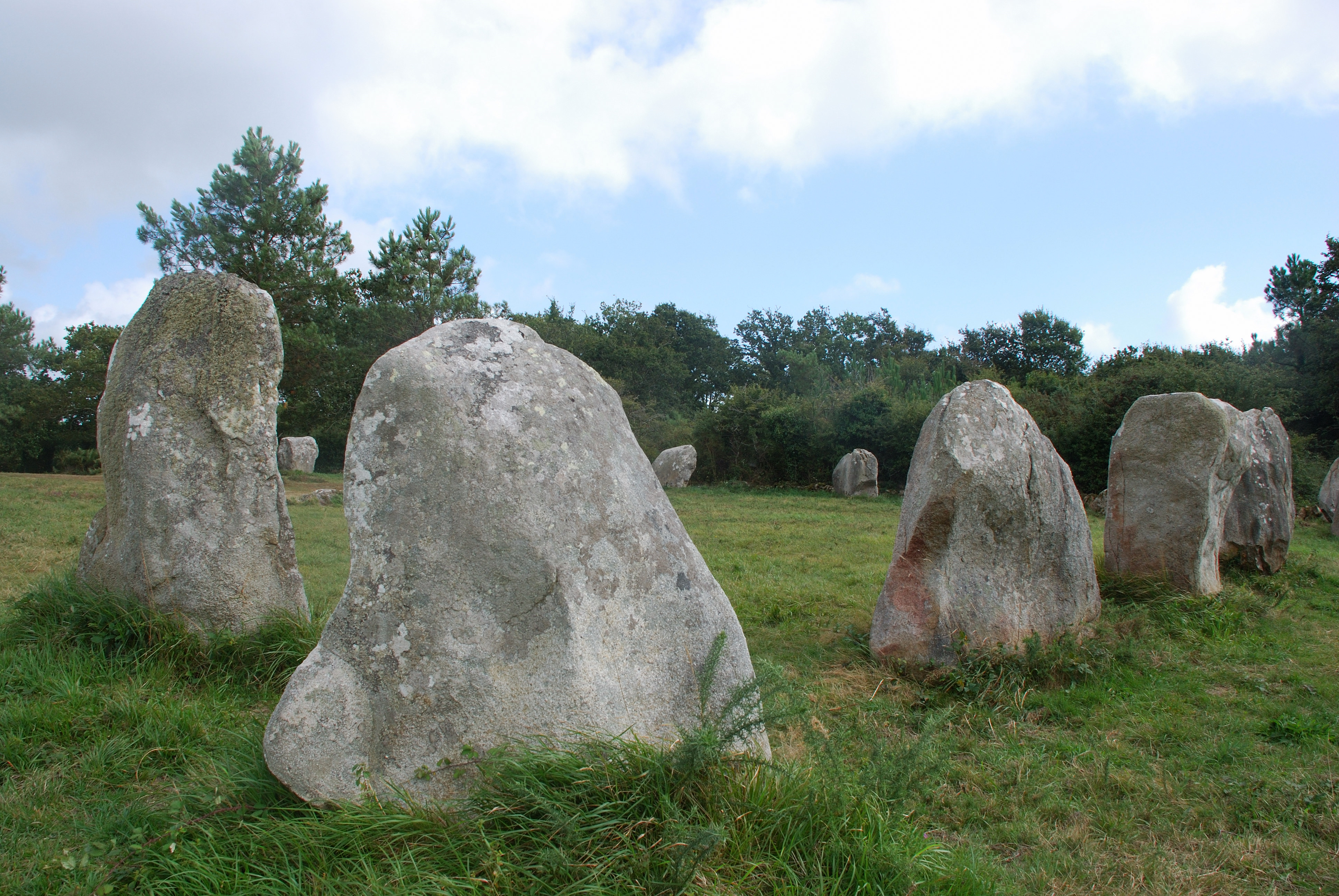 rectangular cromlech of Crucuno.